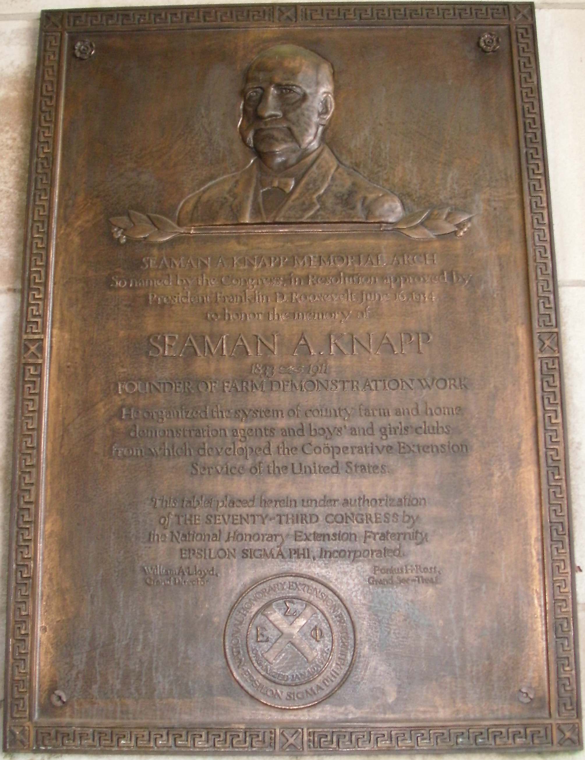 U.S. Department of Agriculture South Building, 14th St. and Independence Ave., SW SW